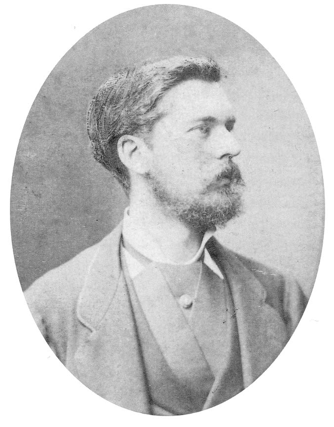 Portrait of British painter John Singer Sargent (1856-1925)